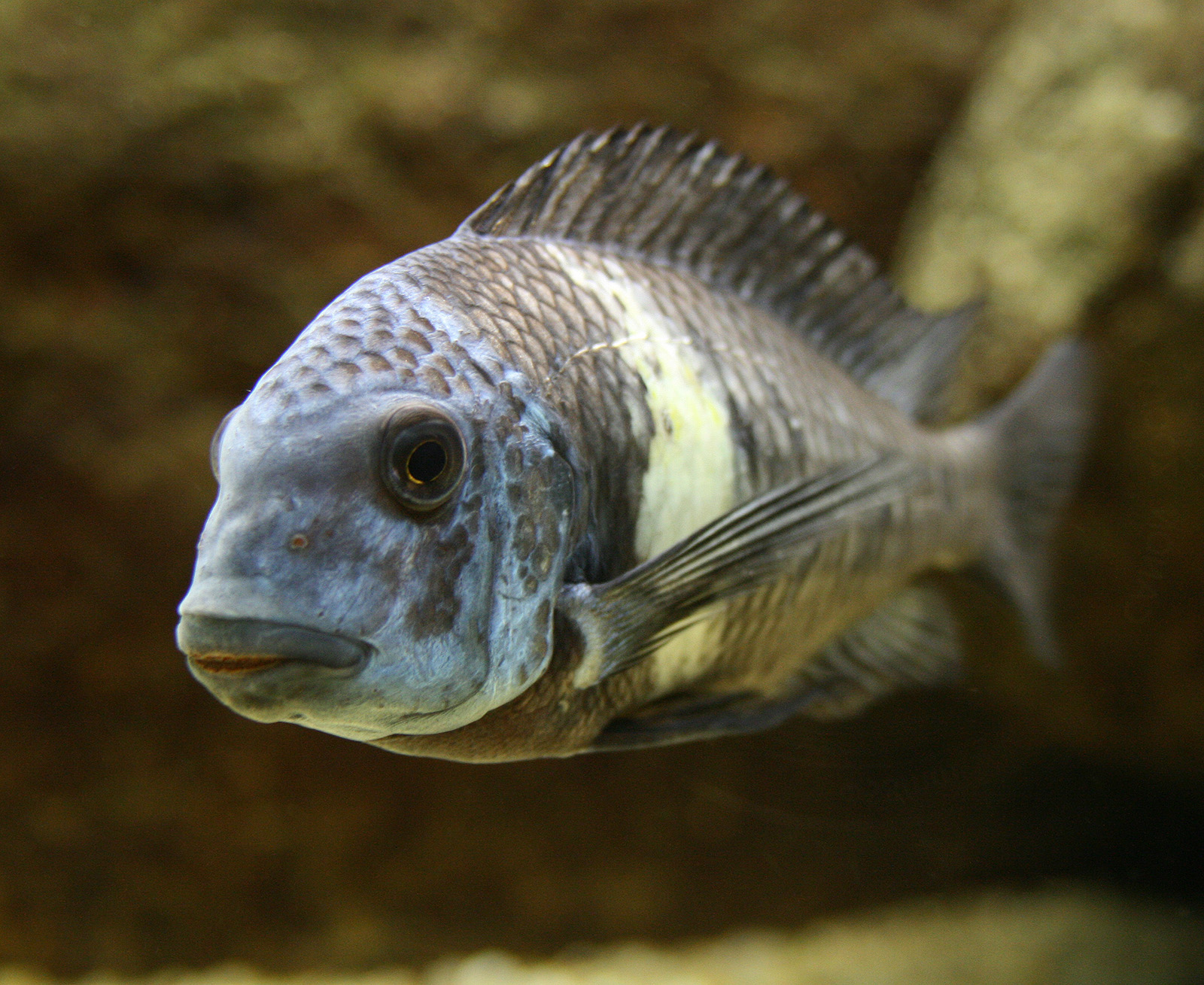 Austria, Vienna, Tiergarten Schönbrunn